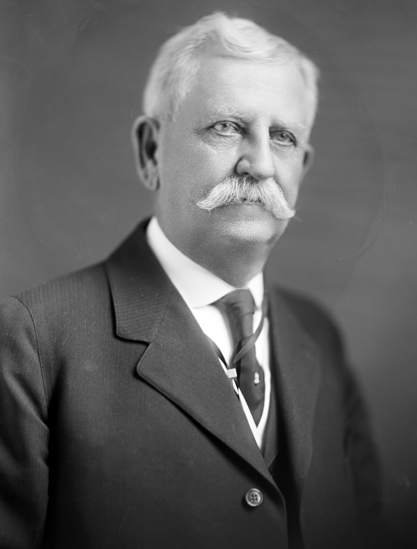 Dudley Mays Hughes, US Representative from Georgia